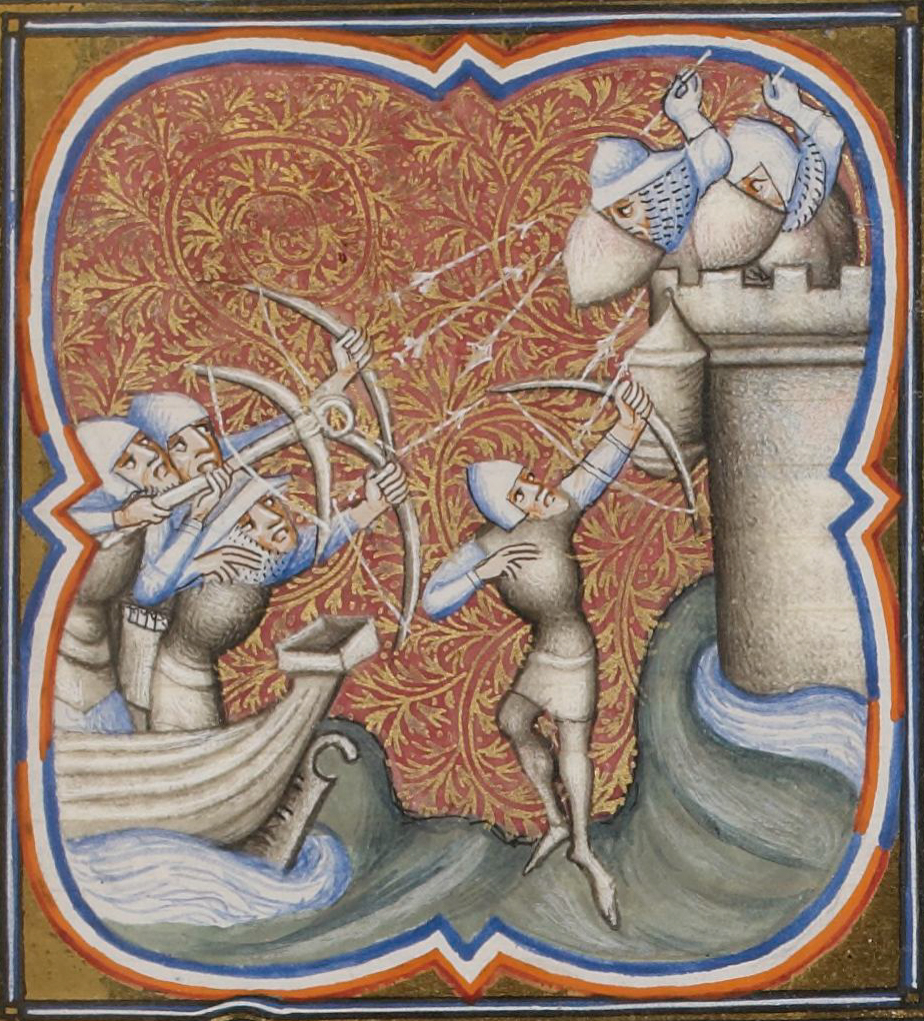 Siége of Damietta